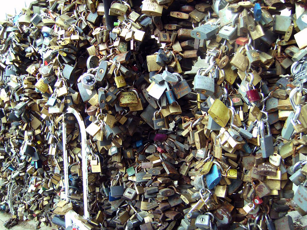 locks of lovers in Pécs, Hungary